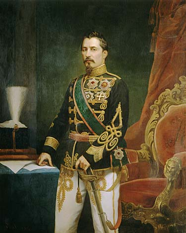 Portrait of Alexandru Ioan Cuza. He was the ruler of Romania between 1860 and 1865, at first as Prince of Moldavia and Prince of Wallachia until the Romanian unification of 1862 when he became Domnitor of both, recognized by the Ottoman Porte, Russia and the Western powers.